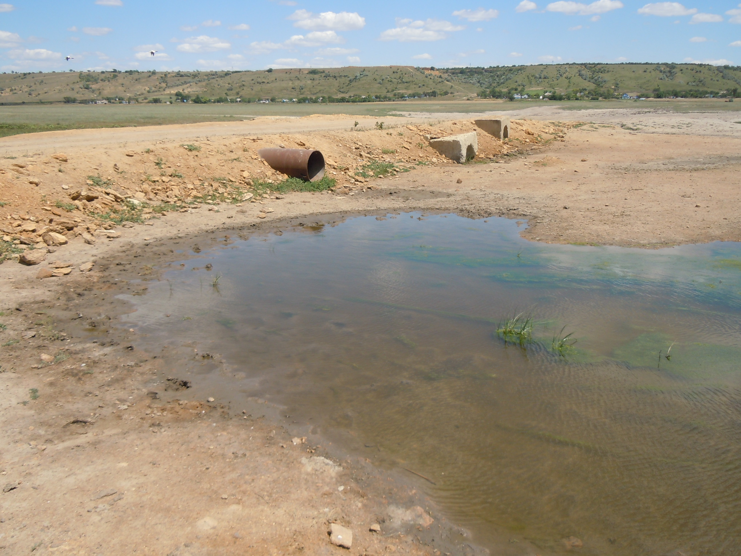 The end of the flow of the Velykyi Kuyalnyk River. The river does not inflow into the Kuyalnik Estuary